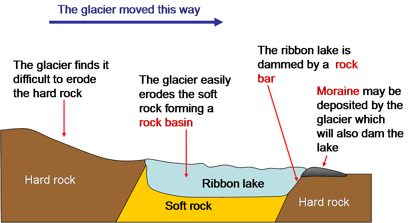 S Knights, my diagram